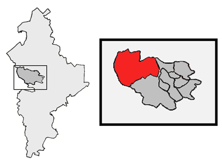 Municipality of García, Nuevo León. Made by Vince on September 4th, 2005.